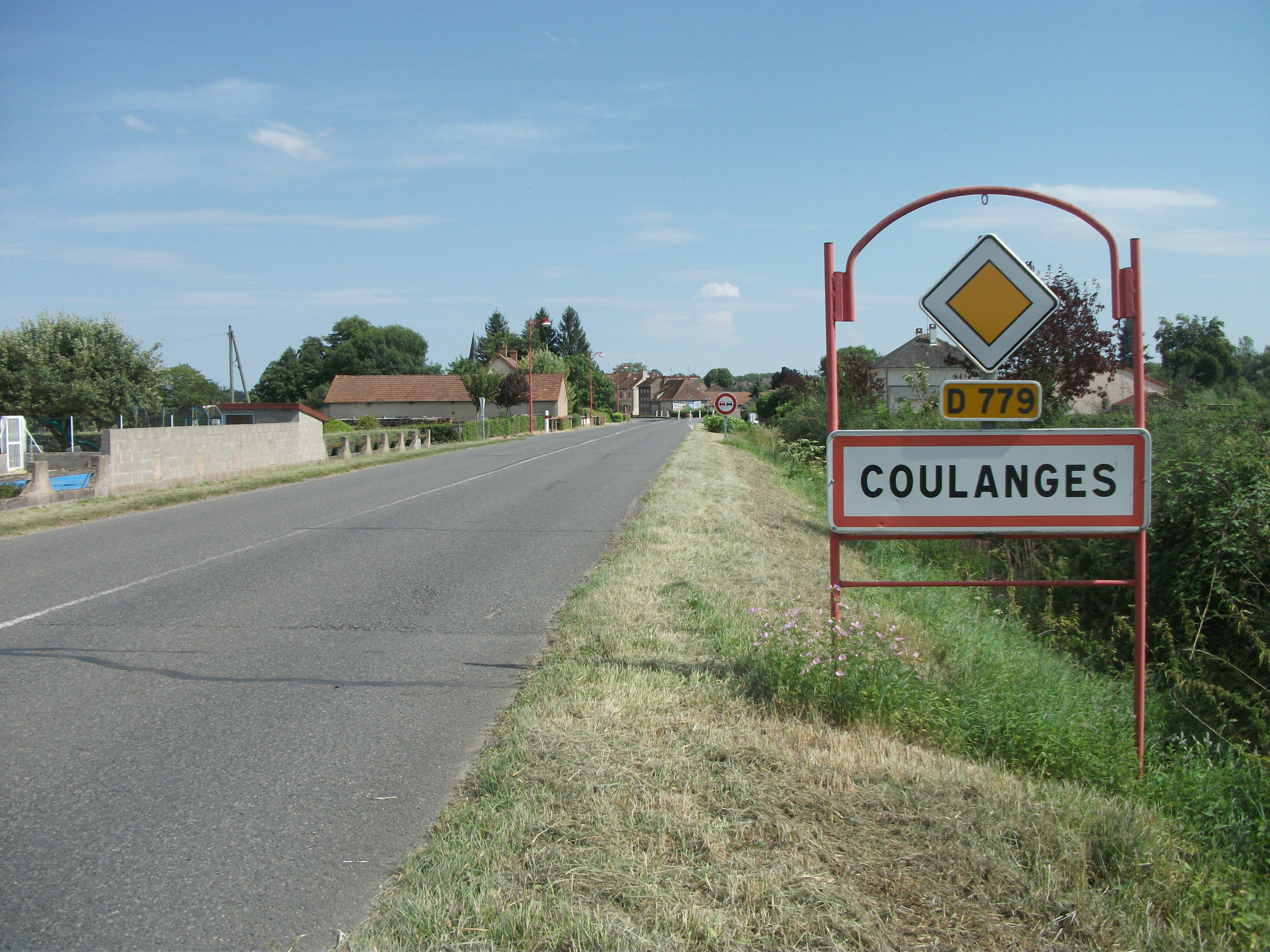 Entrance of Coulanges, Allier, Auvergne-Rhône-Alpes, France, on departmental road 779 coming from Moulins (west), heading for Digoin [15043]